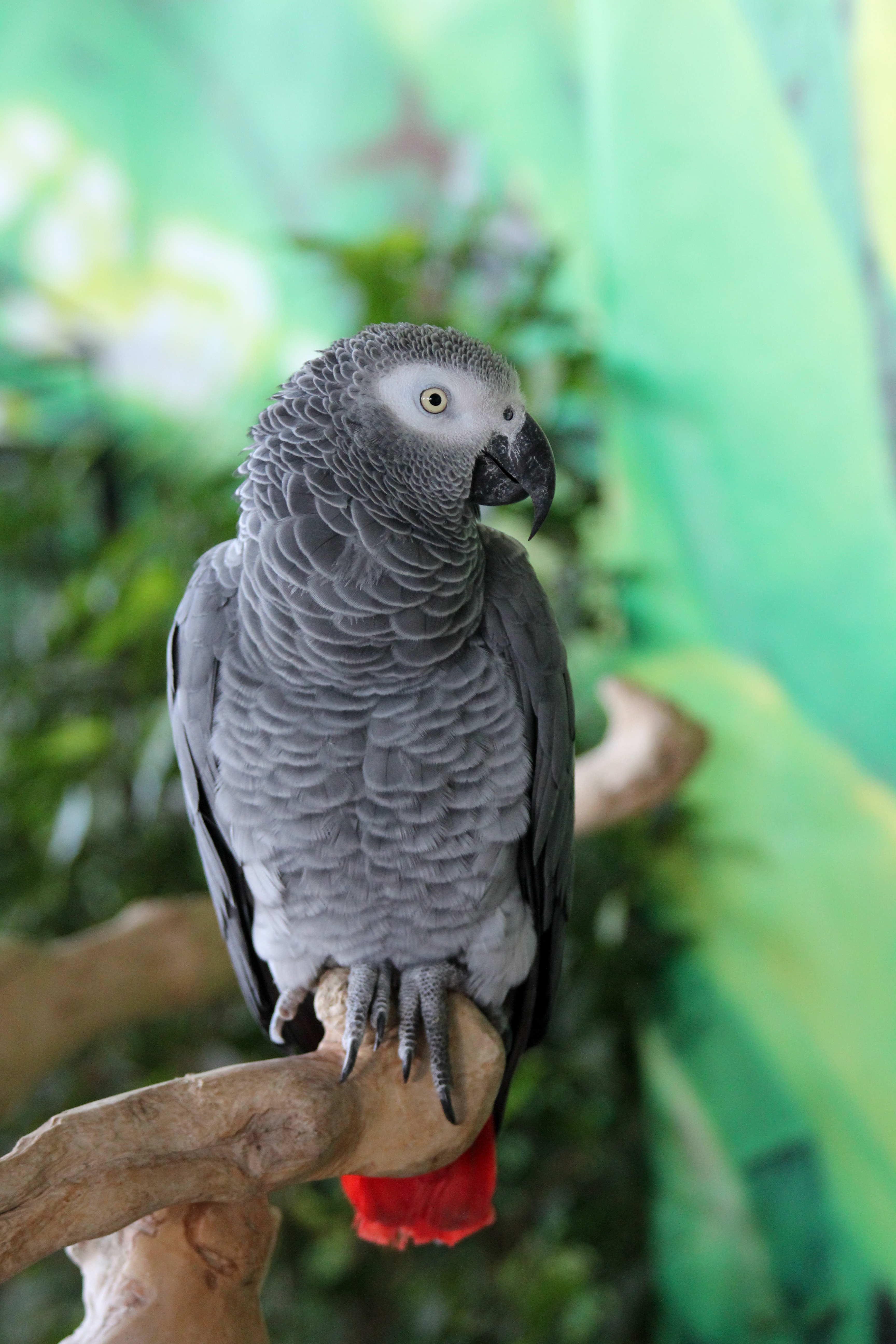 An African Grey Parrot at Bird Kingdom, Niagara Falls, Canada.